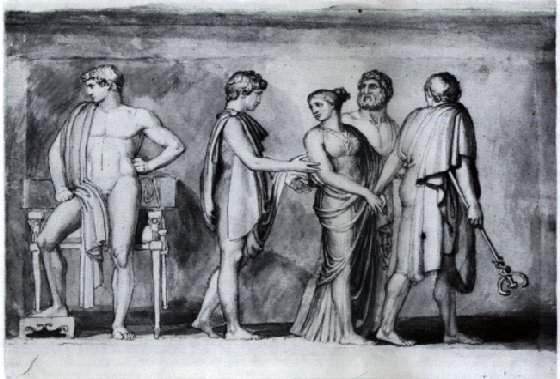 Briseis taken to Achilles. Illustration by John Flaxman for Pope's translation of The Iliad, 1805.